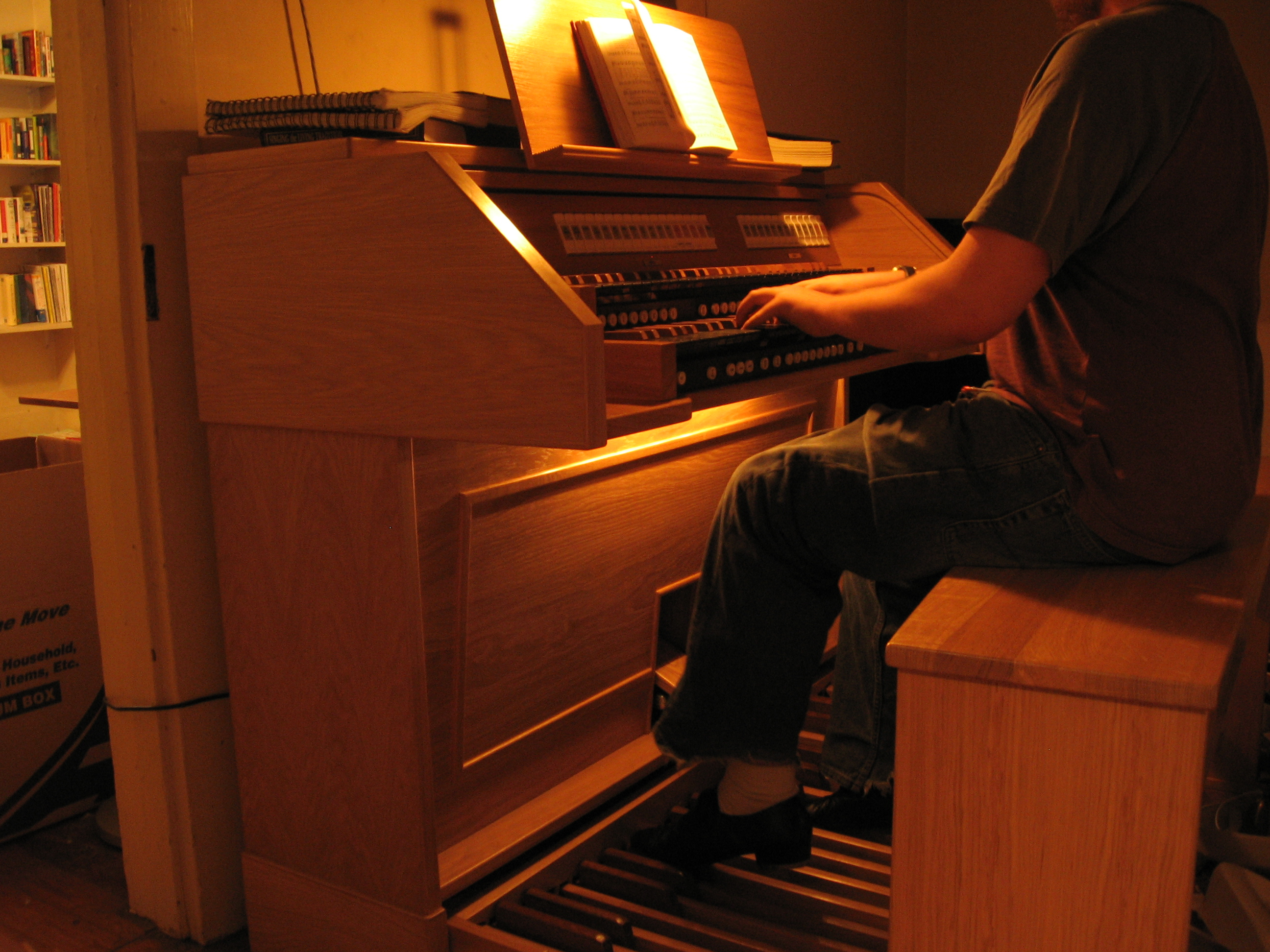 Photo of User:Piercetheorganist playing his Eminent organ, showing organ, pedalboard, and organ shoes (intended for use in those articles).